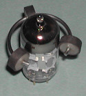 tube damper made with titanium ring, polymer pads. Self-made item reduces microphonic vibration, available at retail from Herbie's Audio Lab, Cibolo, Texas, web link